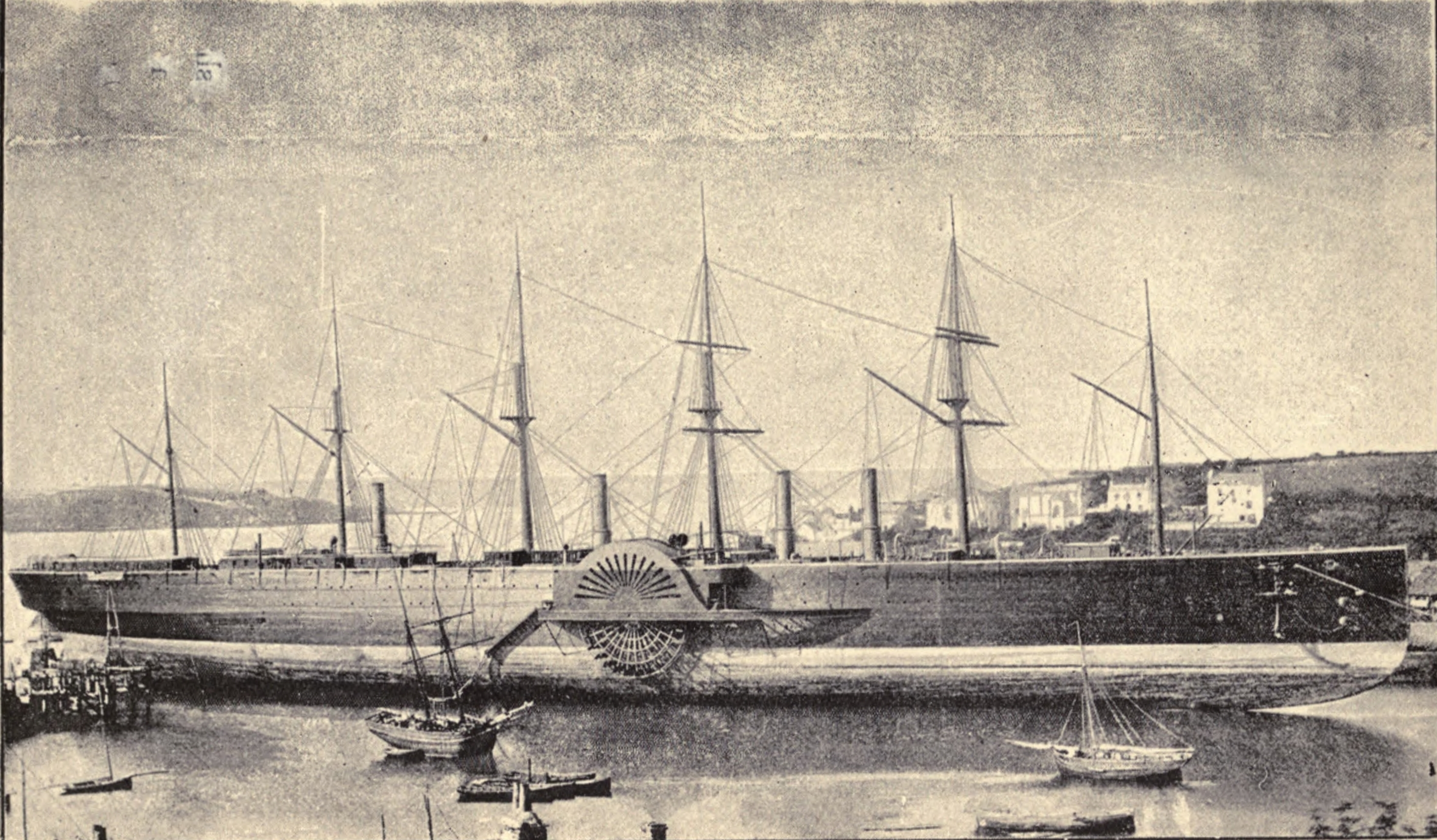 Great Eastern after the removal of her fourth funnel.